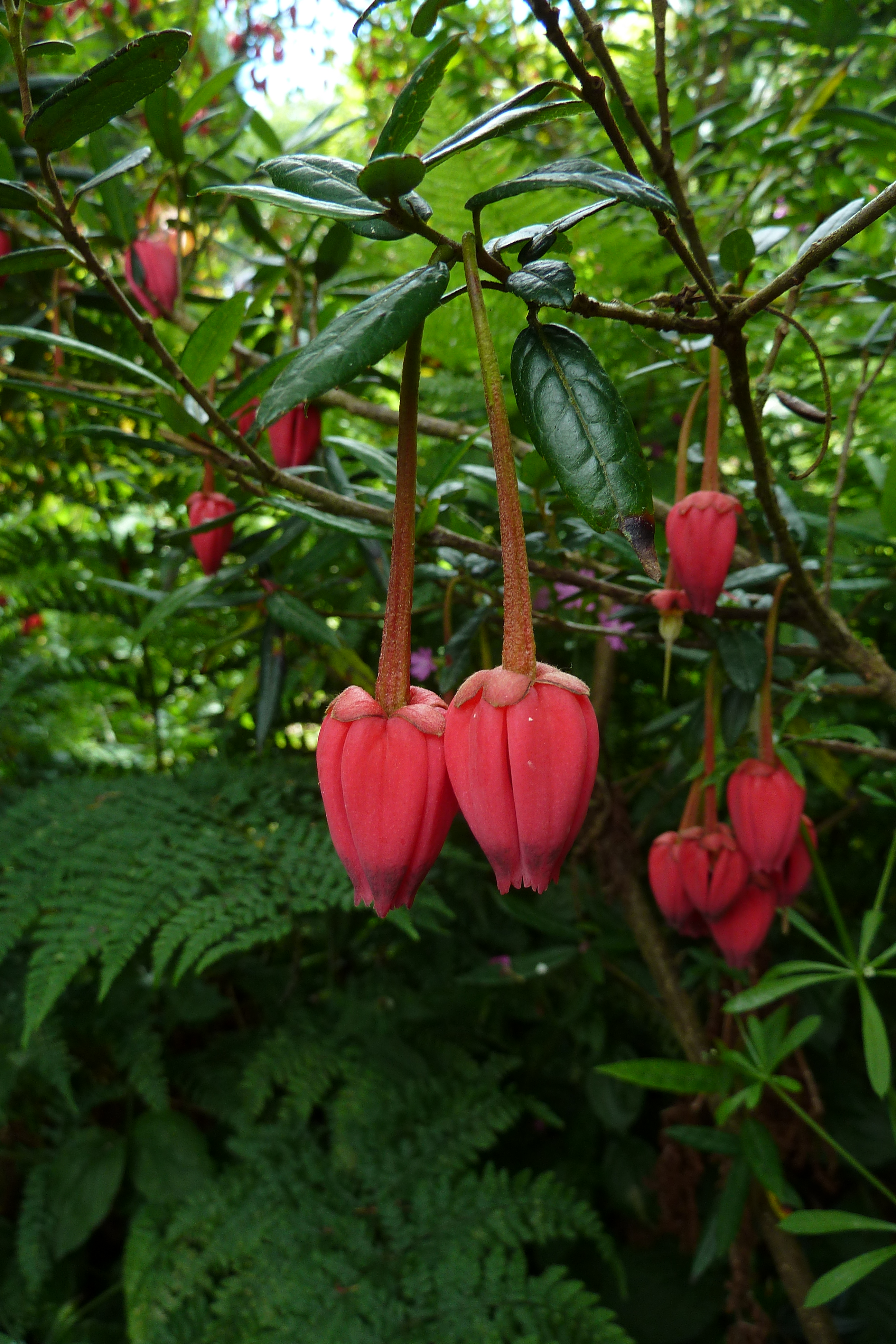 Blossoms of Crinodendron hookerianum in the Lost Gardens of Heligan, South England